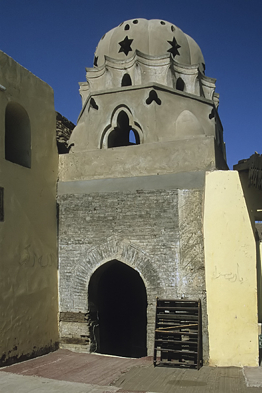 Fatimid tomb at the north-east of the 'Amri mosque at Qus, Egypt